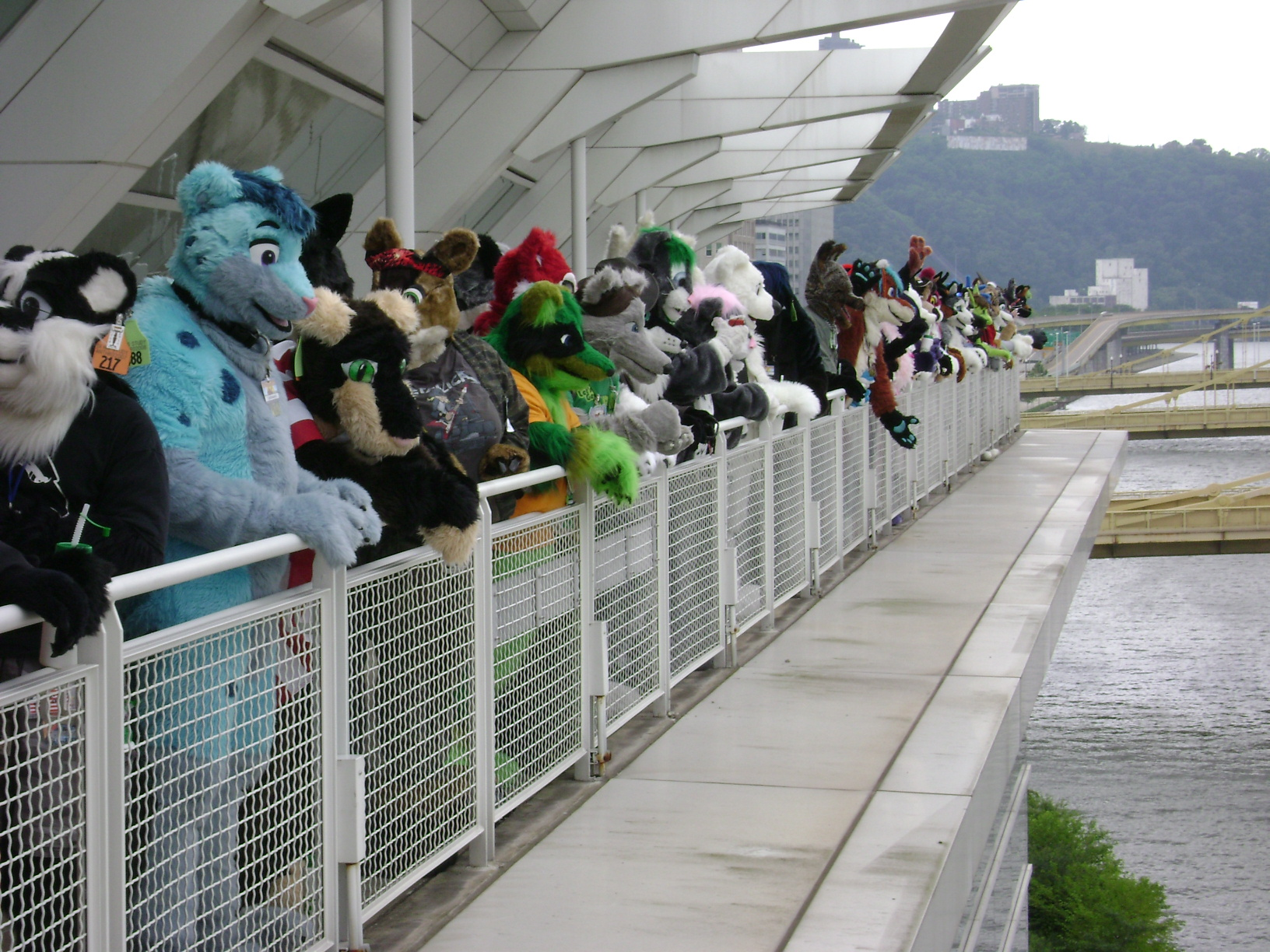 Several fursuiters at Anthrocon 2008.